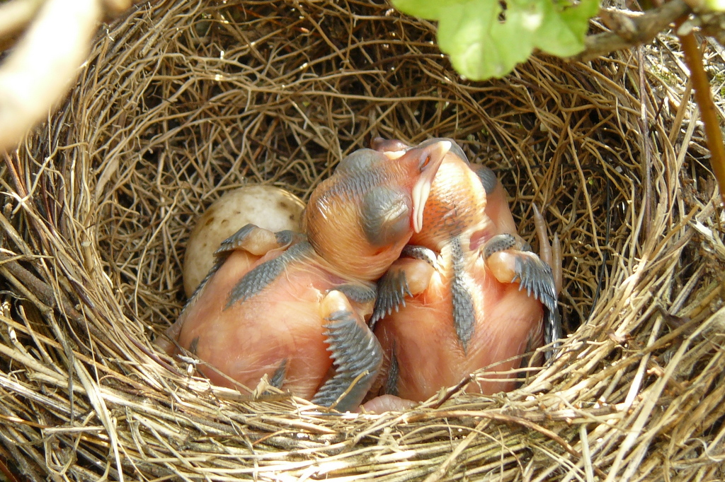 Sylvia atricapilla